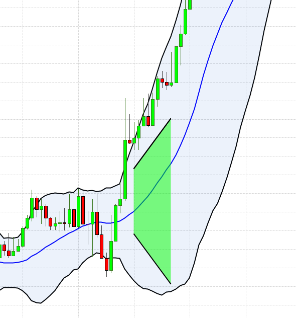 Bandes de bollinger, période 20, écart type 2. Illustration d'un départ de tendance soutenu avec ouverture des bandes.